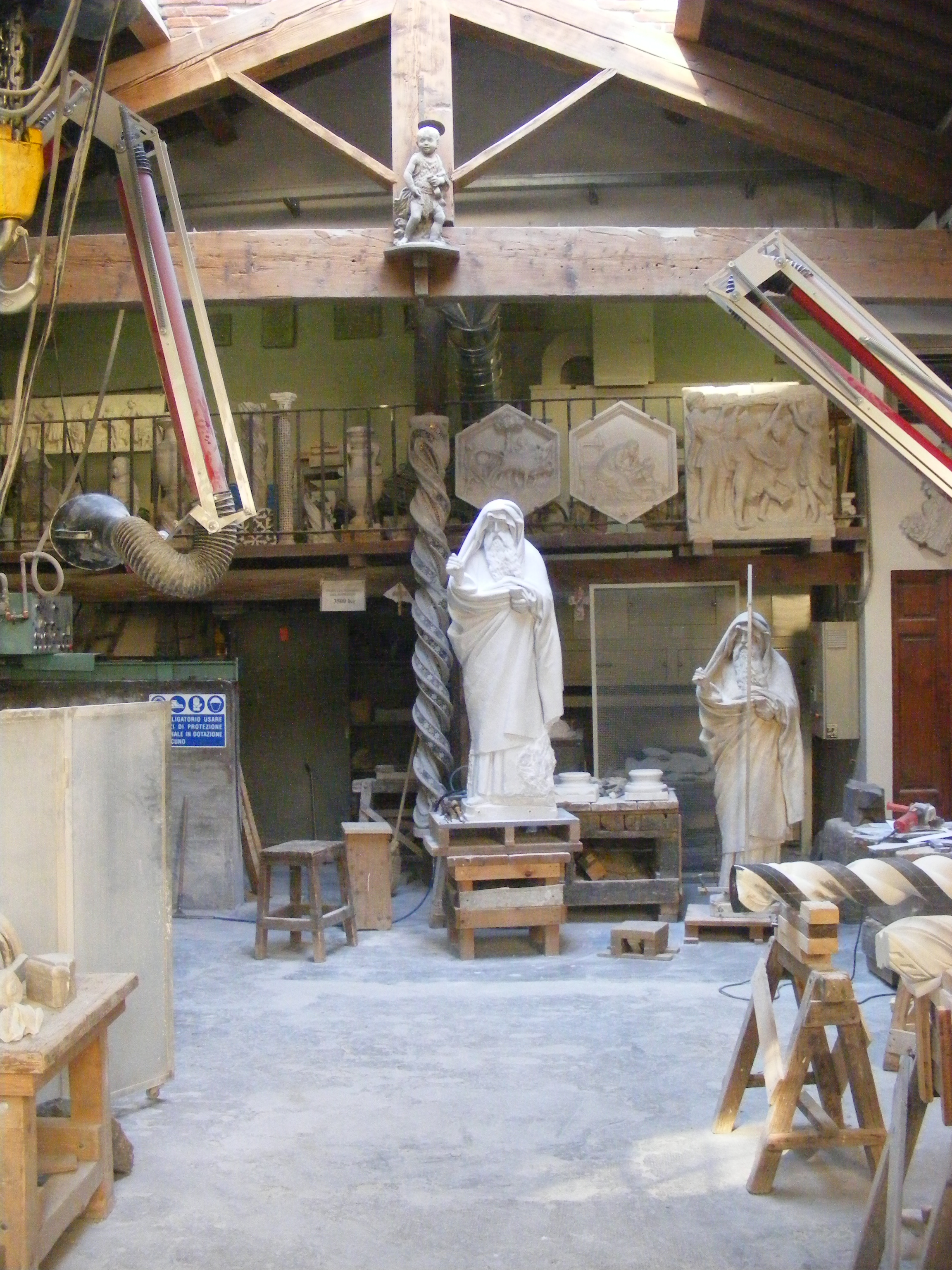 Florenz - La Botega, dell'Opera di Santa Maria del Fiore.